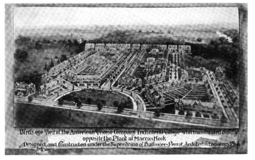 Image of American Viscose Corporation Industrial Village built to house workers across from the American Viscose Corporation Plant in Marcus Hook, PA